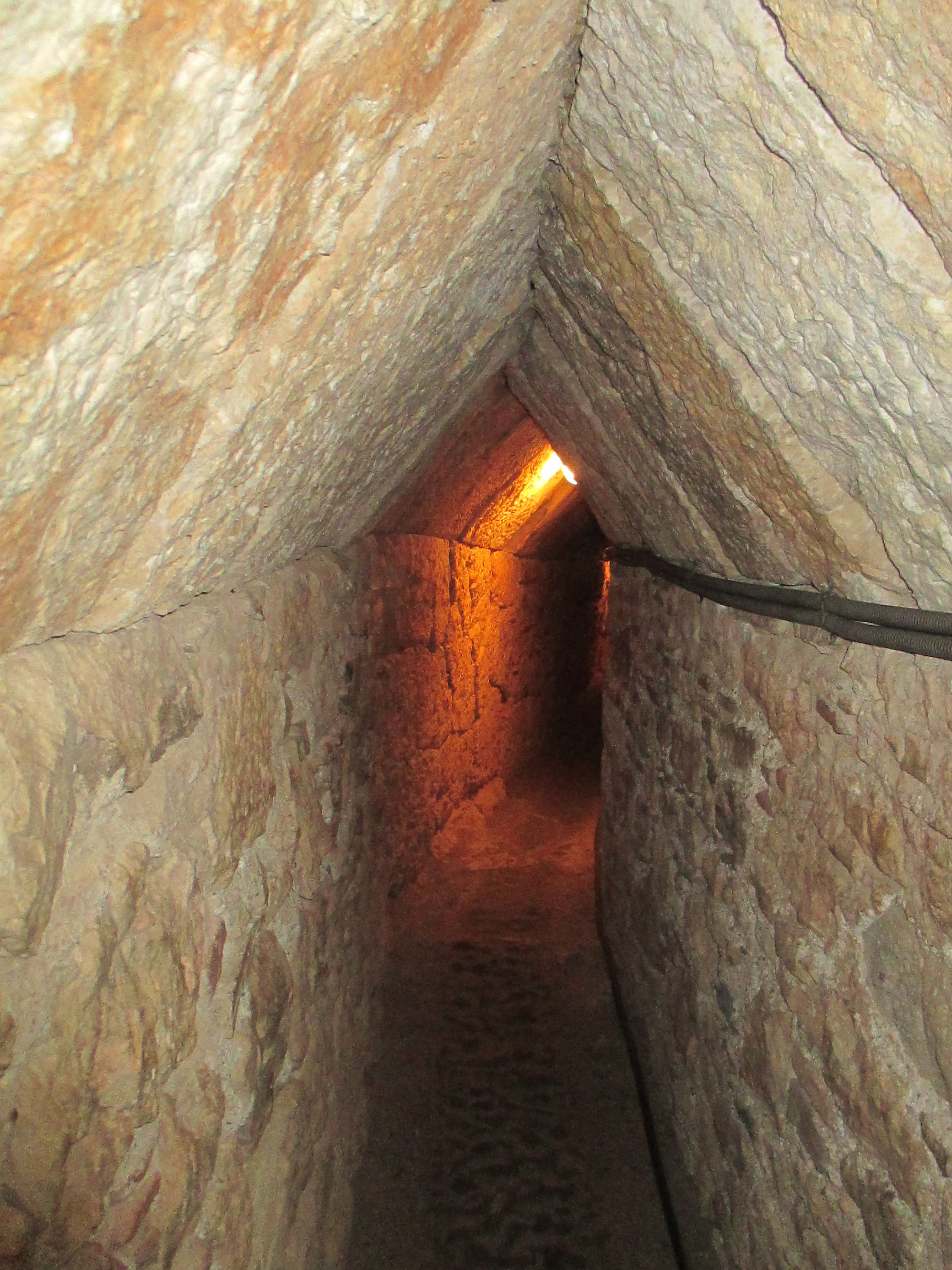 Tunnel of Eupalinos (Eupalinian tunnel), Pythagoreio, Samos, Greece.